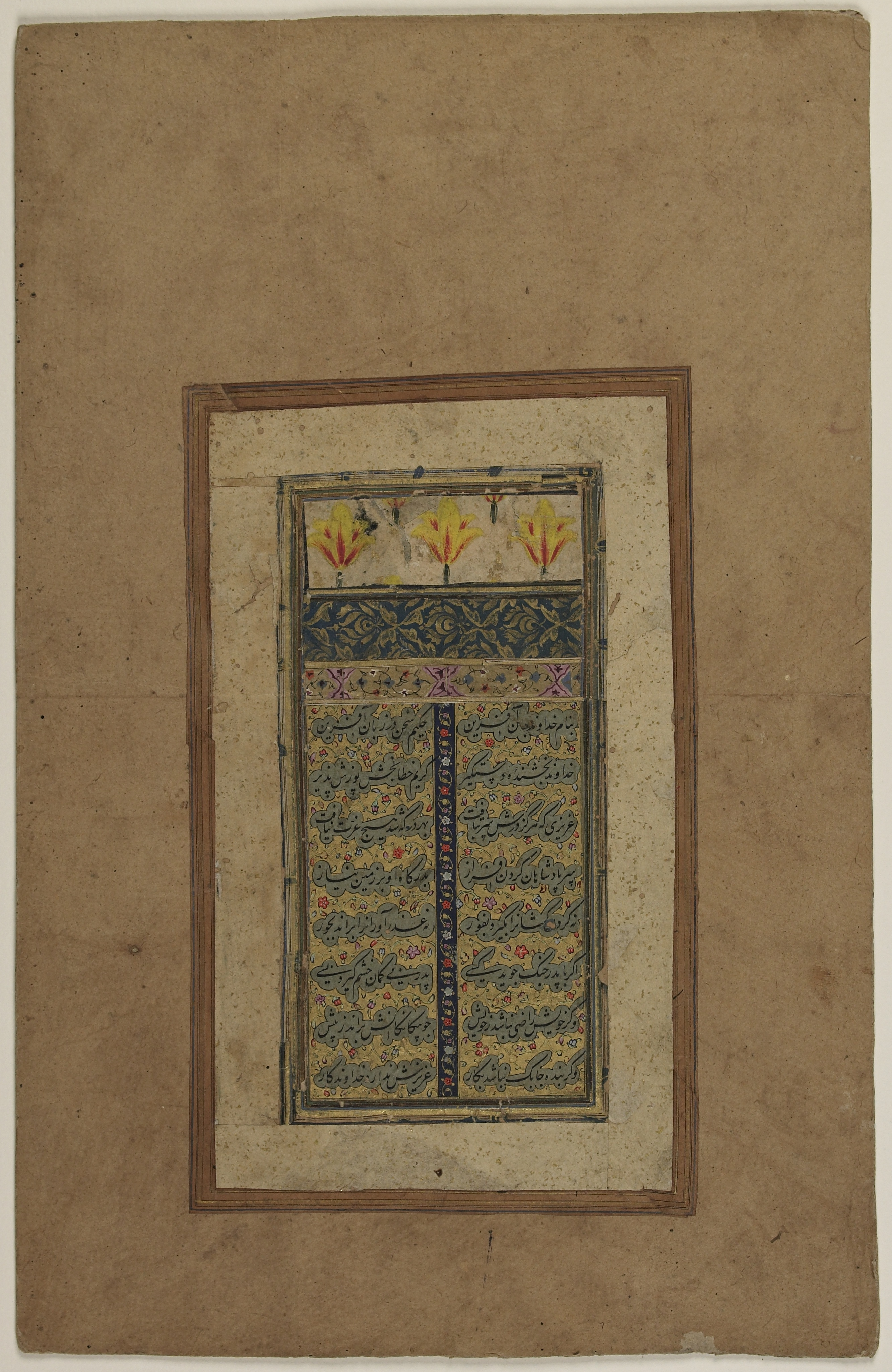 Script: nasta'liq These calligraphic fragments are the first seven pages of Sa'di's Bustan (The Fruit Garden or The Orchard). The order of the first seven pages of this work all belonging to the same manuscript goes as follows: Page 1: 1-04-713.19.26, Page 2: 1-04-713.19.15, Page 3: 1-04-713.19.14, Page 4: 1-04-713.19.12, Page 5: 1-04-713.19.13, Page 6: 1-04-713.19.11, Page 7: 1-04-713.19.25 Page 1: Shaykh Sa'di (d. 691/1292) composed his famous and beloved Bustan in 1256-7. It contains histories, personal anecdotes, fables and moral instructions. The first page provides a praise of God as an appropriate incipit to the text. The first two lines read: In the name of the Lord, Life-Creating, / The Wise One, Speech-Creating with the Tongue, / The Lord, the Giver, the Hand-Seizing, / Merciful, Sin-Forgiving, Excuse-Accepting. As in this case, the first page of a Persian poetical text is easily recognizable, as it is provided with an ornamental panel at the top (sarloh) and the main text usually is decorated by cloud band motifs and decorative illumination between the text and in the gutter separating each verse of poetry. The top frieze contains three yellow flowers -- perhaps intended to represent blooming saffron flowers (although the petals of saffron flowers tend to be of a light purple color) -- as well as a blue horizontal band decorated with a gold leaf and flower motifs. The yellow-orange flower reappears on an otherwise unrelated calligraphic fragment in the Library of Congress (see 1-88-154.41 V). This copy of the Bustan may have been produced in India during the 17th century. The back of the second page (1-04-713.19.15) of this series includes a note supporting this provenance, as it states that the work was written by 'Abd al-Rashid Daylami. He was one of the famous calligraphers active at the court of the Mughal ruler Shah Jahan (r. 1627-1656) in Agra and Delhi.